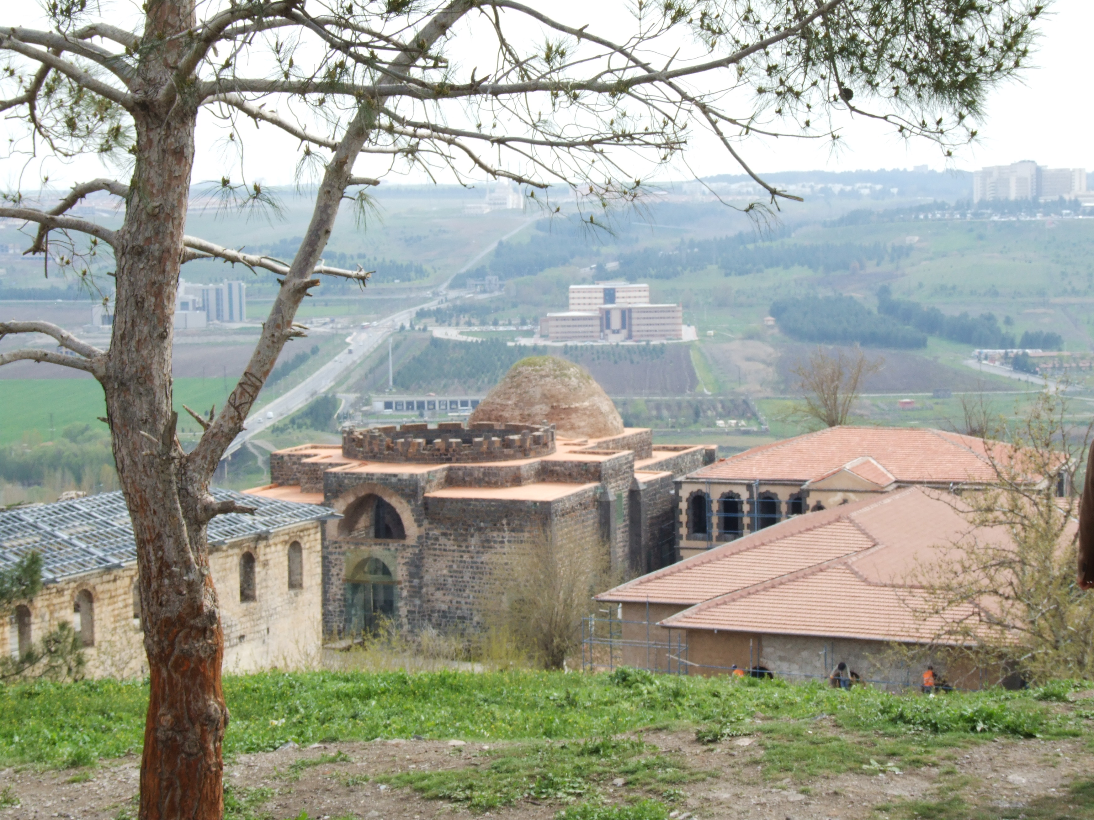 The closest freely-licensed image I can find to a cityscape of Diyarbakır.